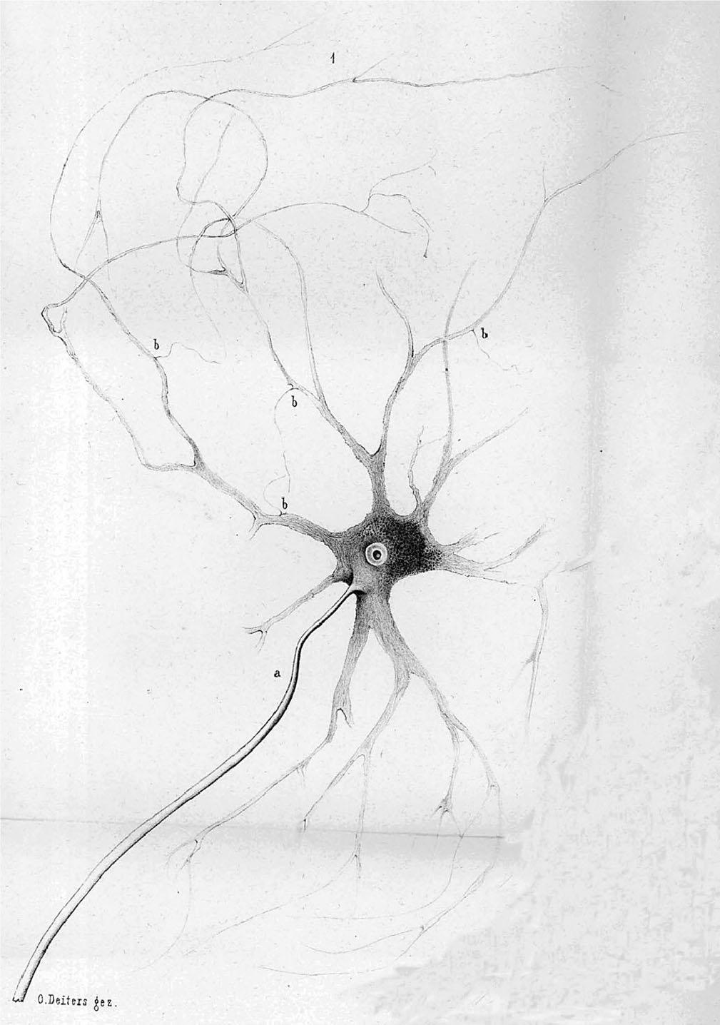 Neuron